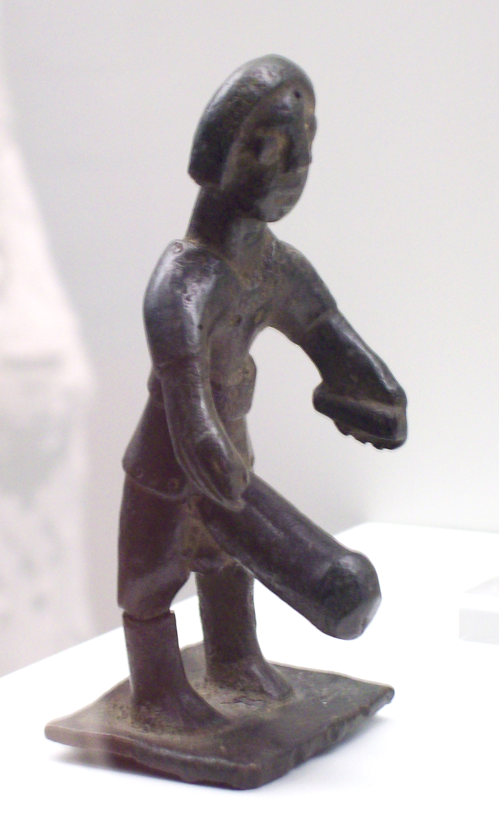 Iberian ithyphallic figure.